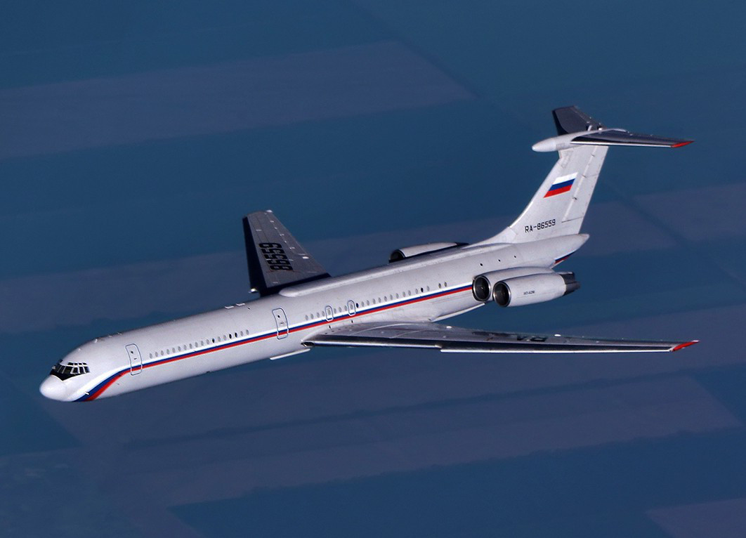 An aerial photograph of a Russian Air Force Ilyushin Il-62M.